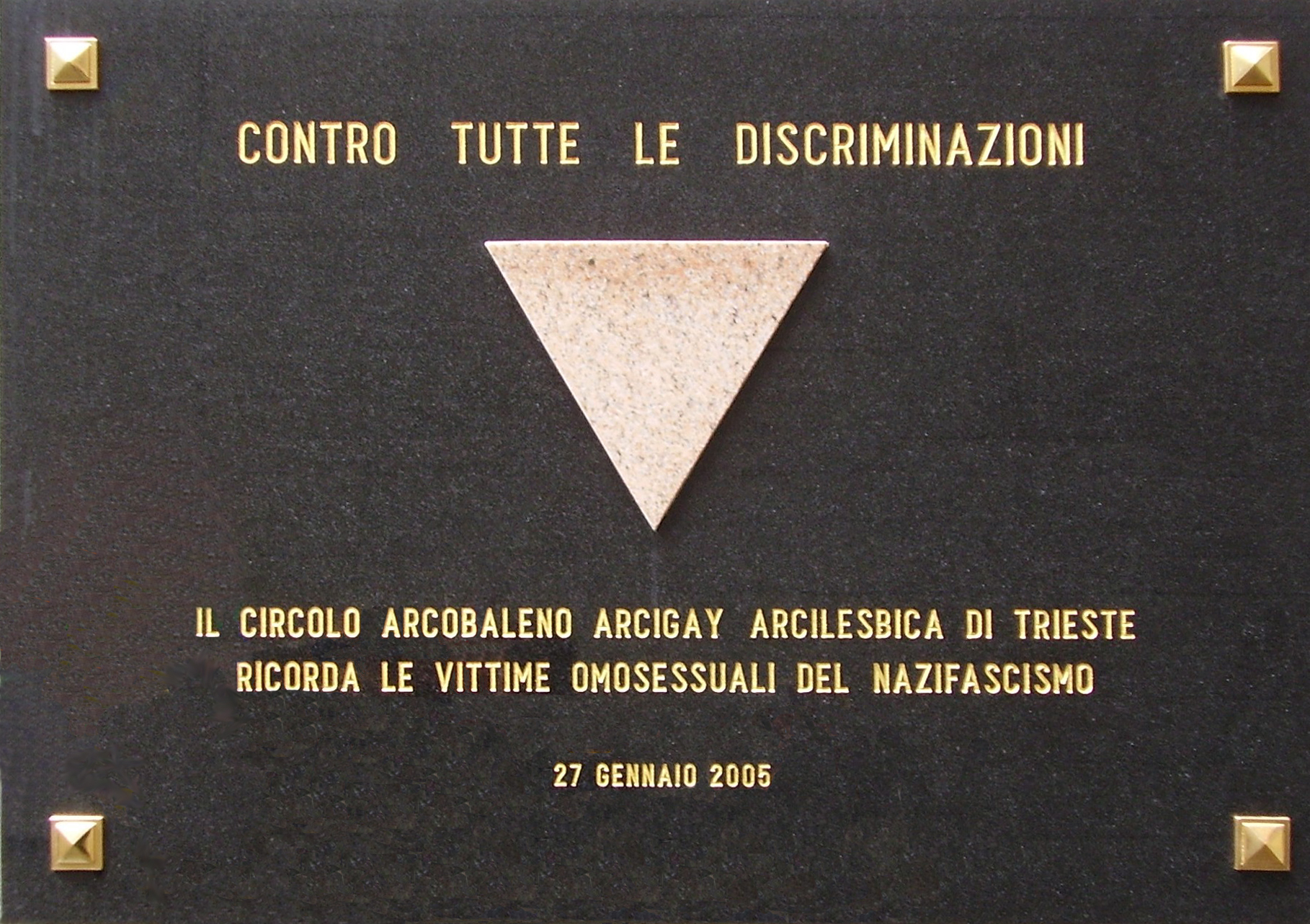 Memorial to Gay Victims of the Holocaust in Risiera di San Sabba